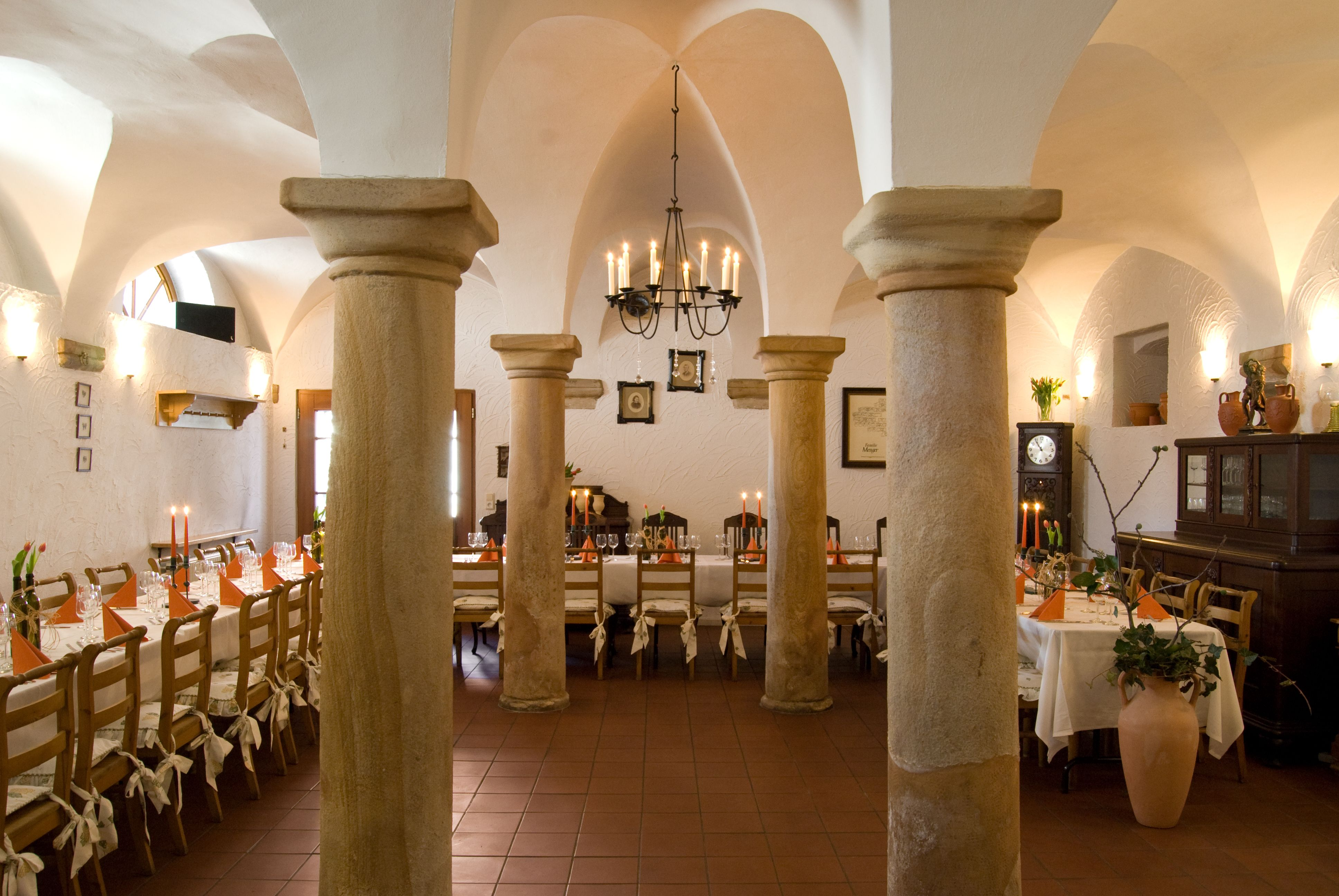 Picture of an historic groin vault in Eich, Rheinhessen, Germany. Built 1824 as a byre, today used as a tasting room of a winery.